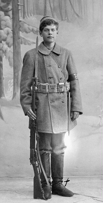 Red soldier